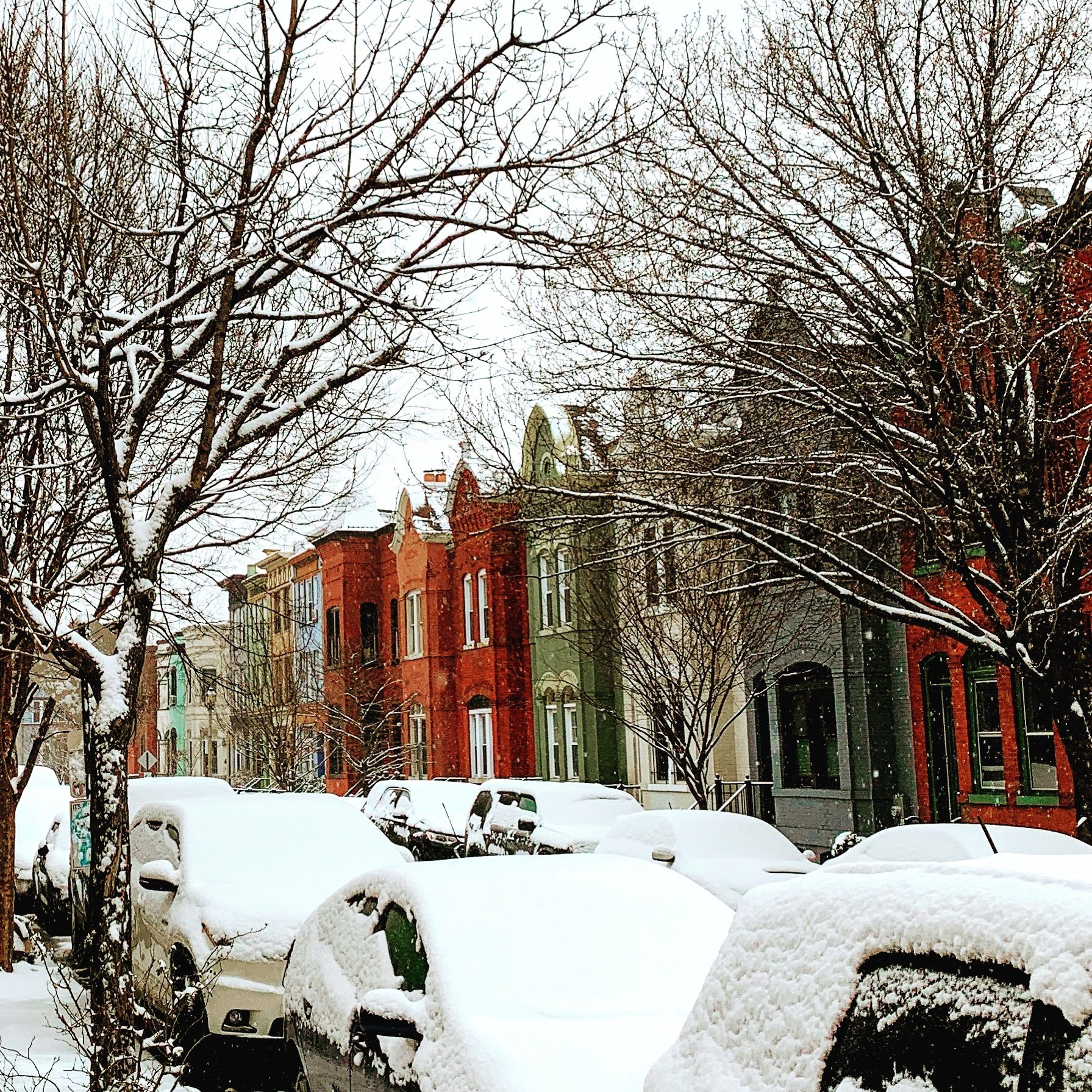 Row houses after snowfall on Wallach Place, U Street Corridor, Washington, D.C.